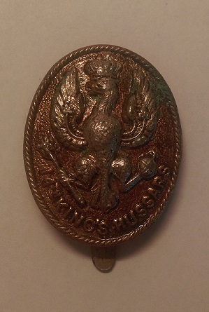 Photo of 14th King's Hussars Cap Badge from personal collection